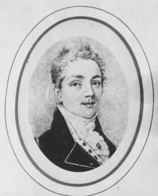 Captain Elmes Yelverton Steele (1781-1865) R.N., of Purbrook, Canada West.